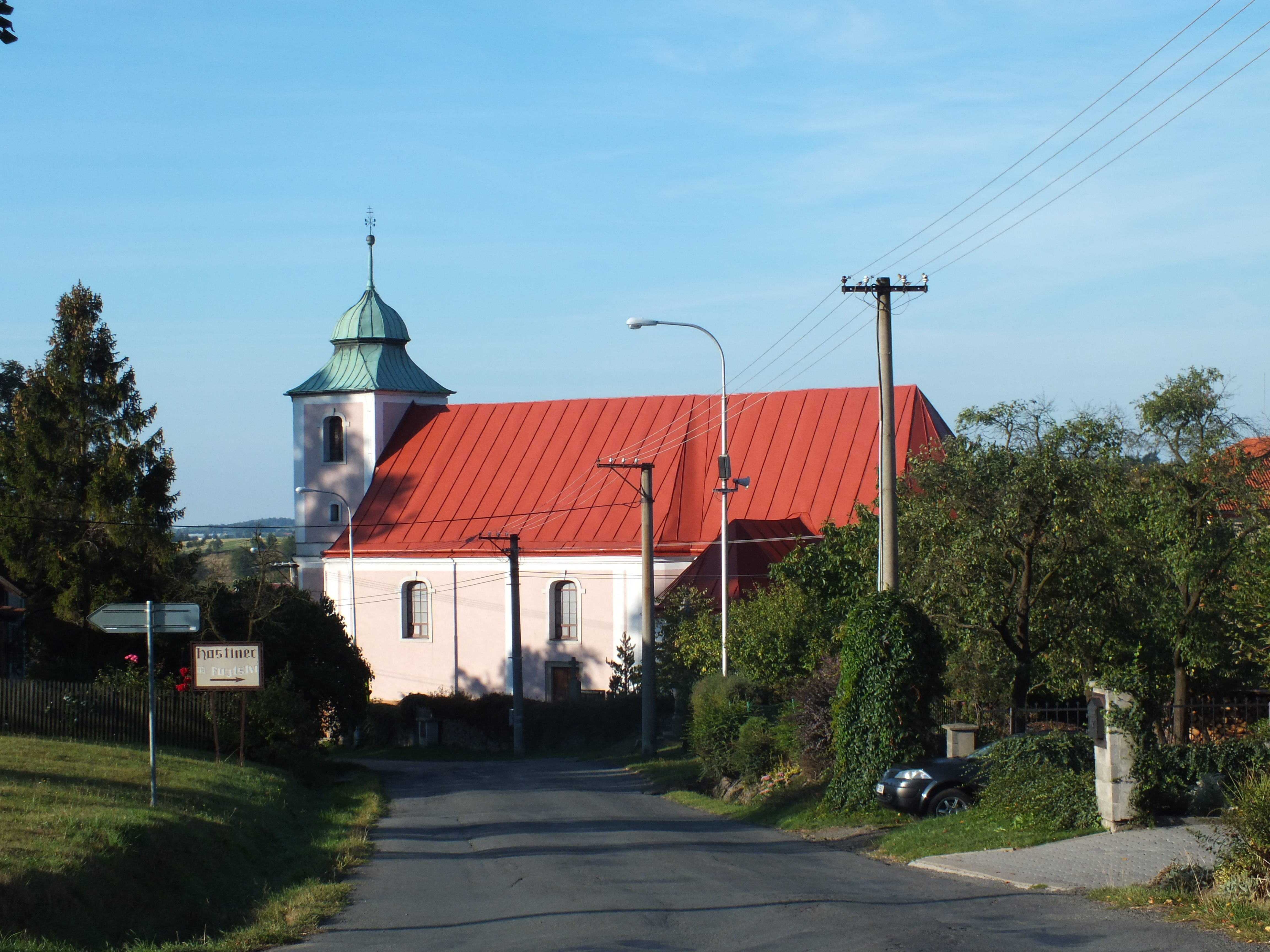 The Saint Nicholas church in Partutovice